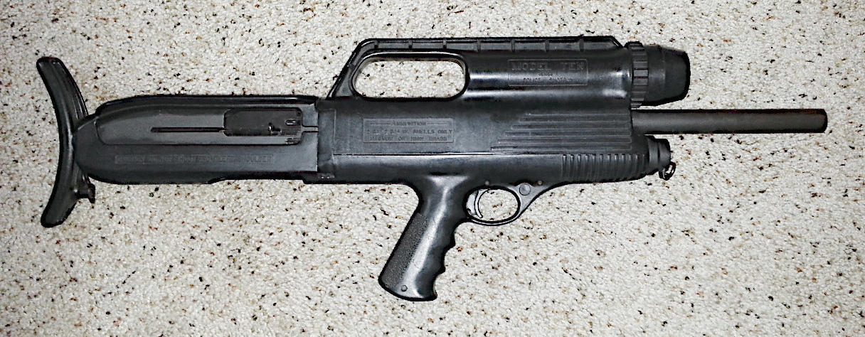 A photograph of my High Standard Model 10A shotgun